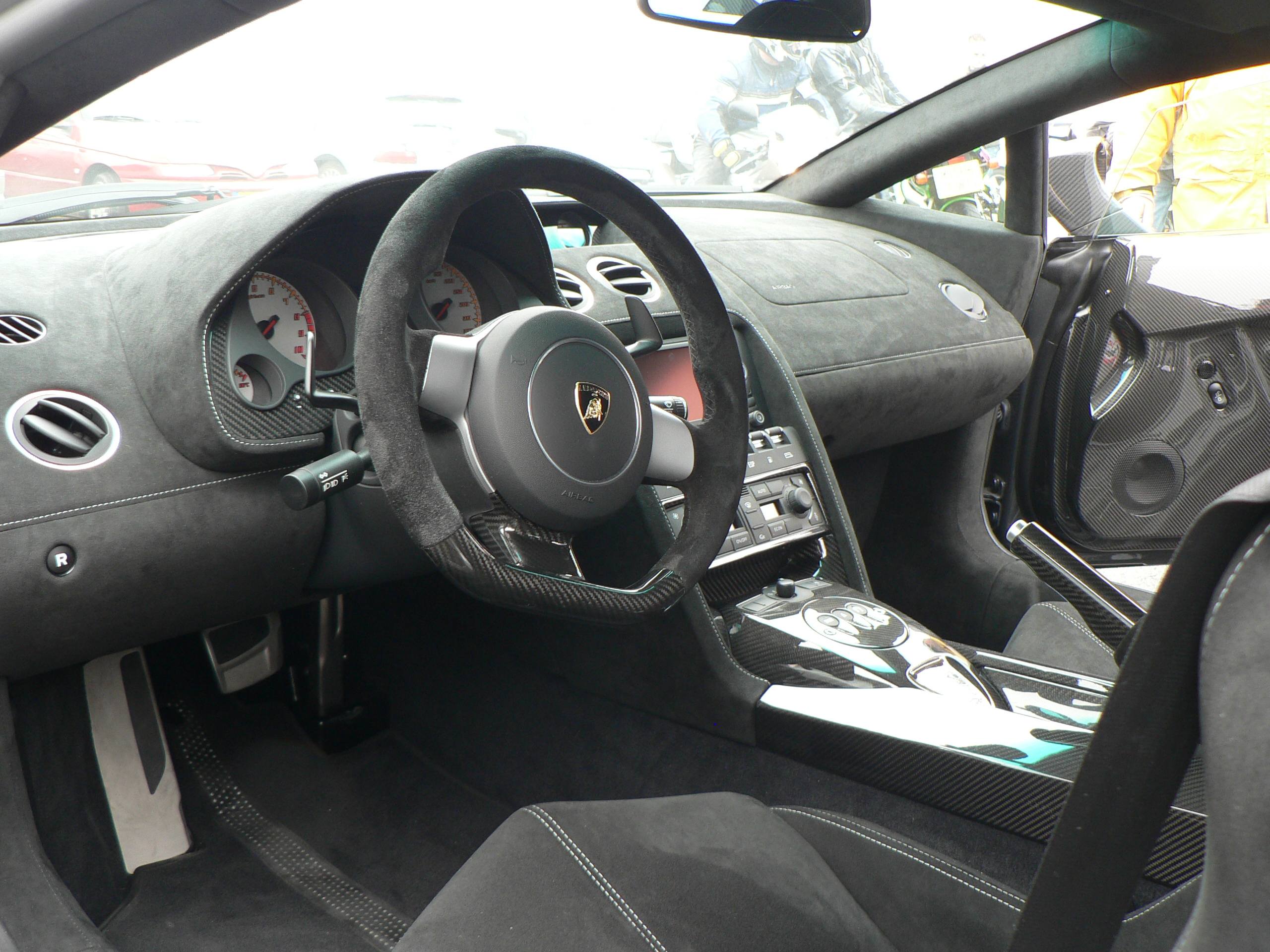 Cockpit of the Lamborghini Gallardo Superleggera